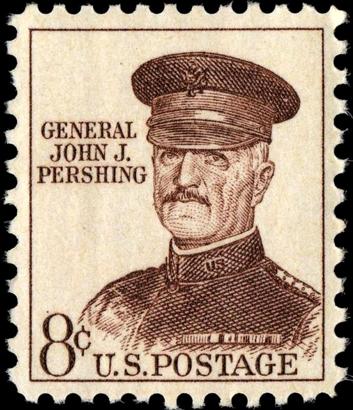 Image of General John J. Pershing definitive 8c postage stamp, issue of 1961